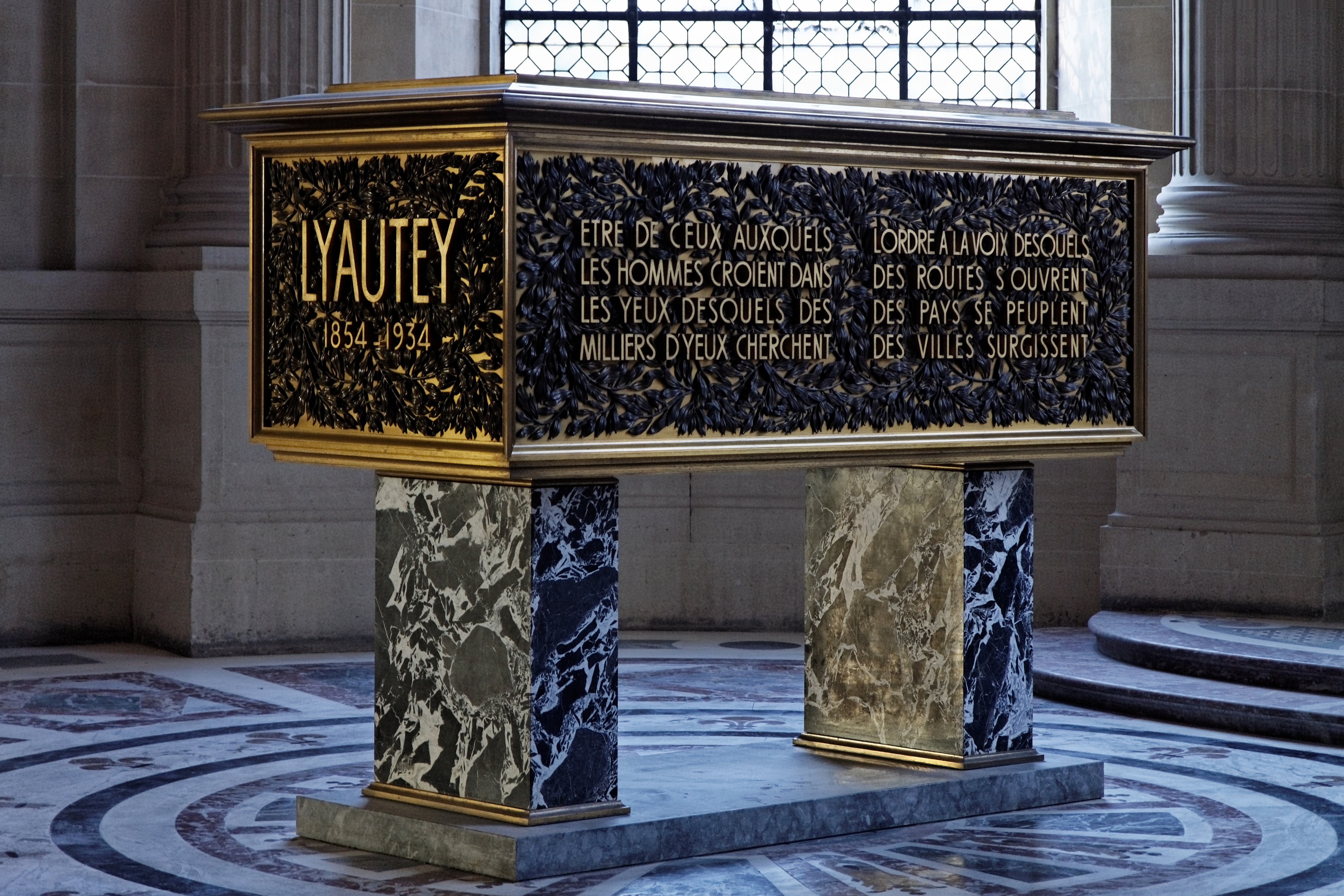 Tomb of Lyautey in the Invalides.